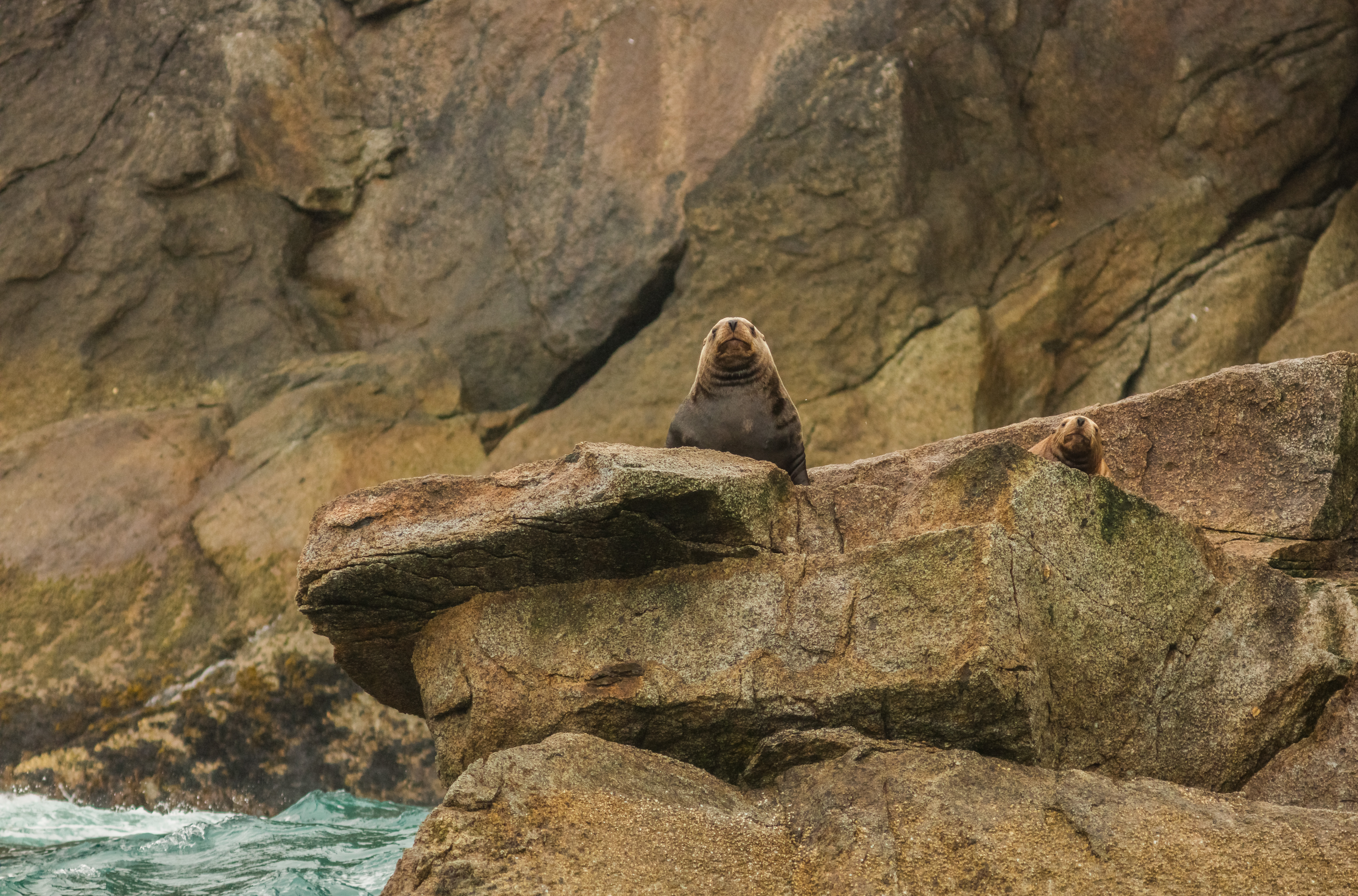 Steller sea lions (Eumetopias jubatus), Resurrection Bay, Seward, Alaska, United States